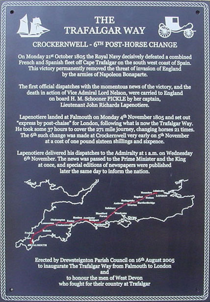 A typical Trafalgar Way Plaque erected at a location where Lt Lapenotiere obtained fresh horses in 1805